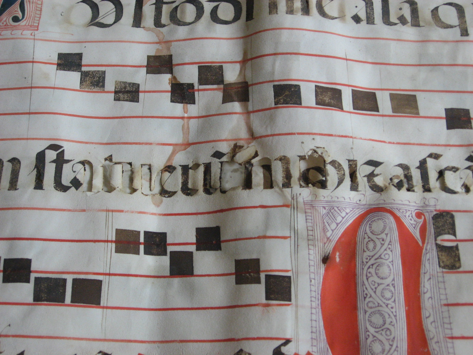 Ink corrosion:iron gall ink has oxidized the cellulose, causing the paper to disintegrate. The manuscript is exhibited behind glass in a church in Evora, Portugal (next to the Capela dos Ossos). I took the photo through the glass. The manuscript is exhibited there without any comment, as just a curious old object. The light is indirect daylight.